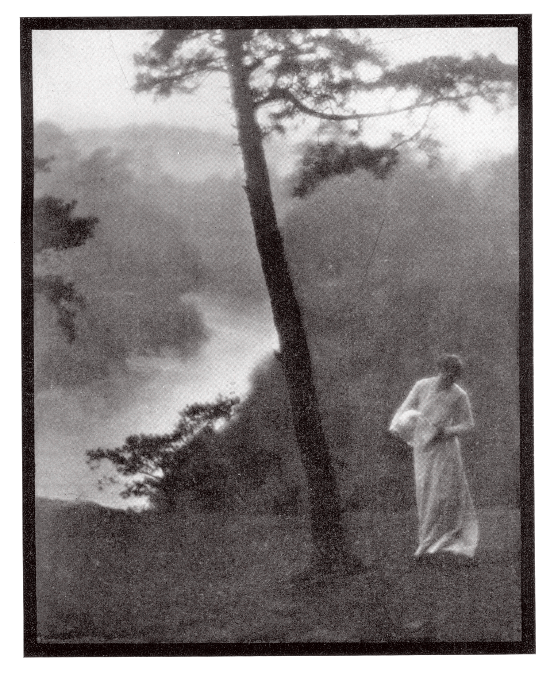 Landscape with Figure by Clarence H. White. The picture shows the the photographer's wife, Mrs. Jane White, standing near a tree in Newark, Ohio (Library of congress).